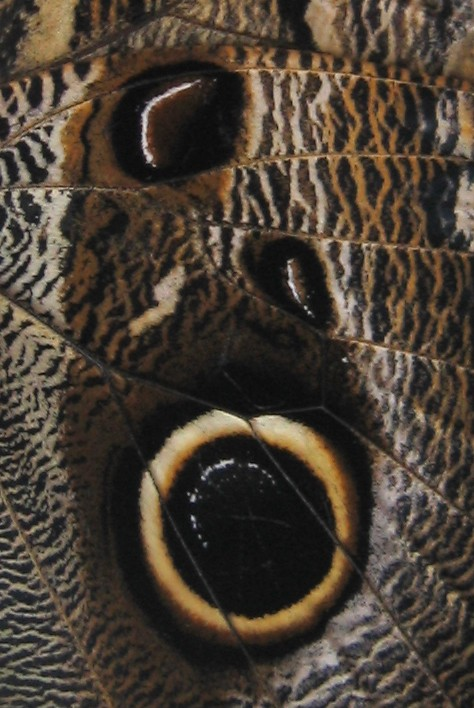 detail of wing Botanischer Garten München-Nymphenburg